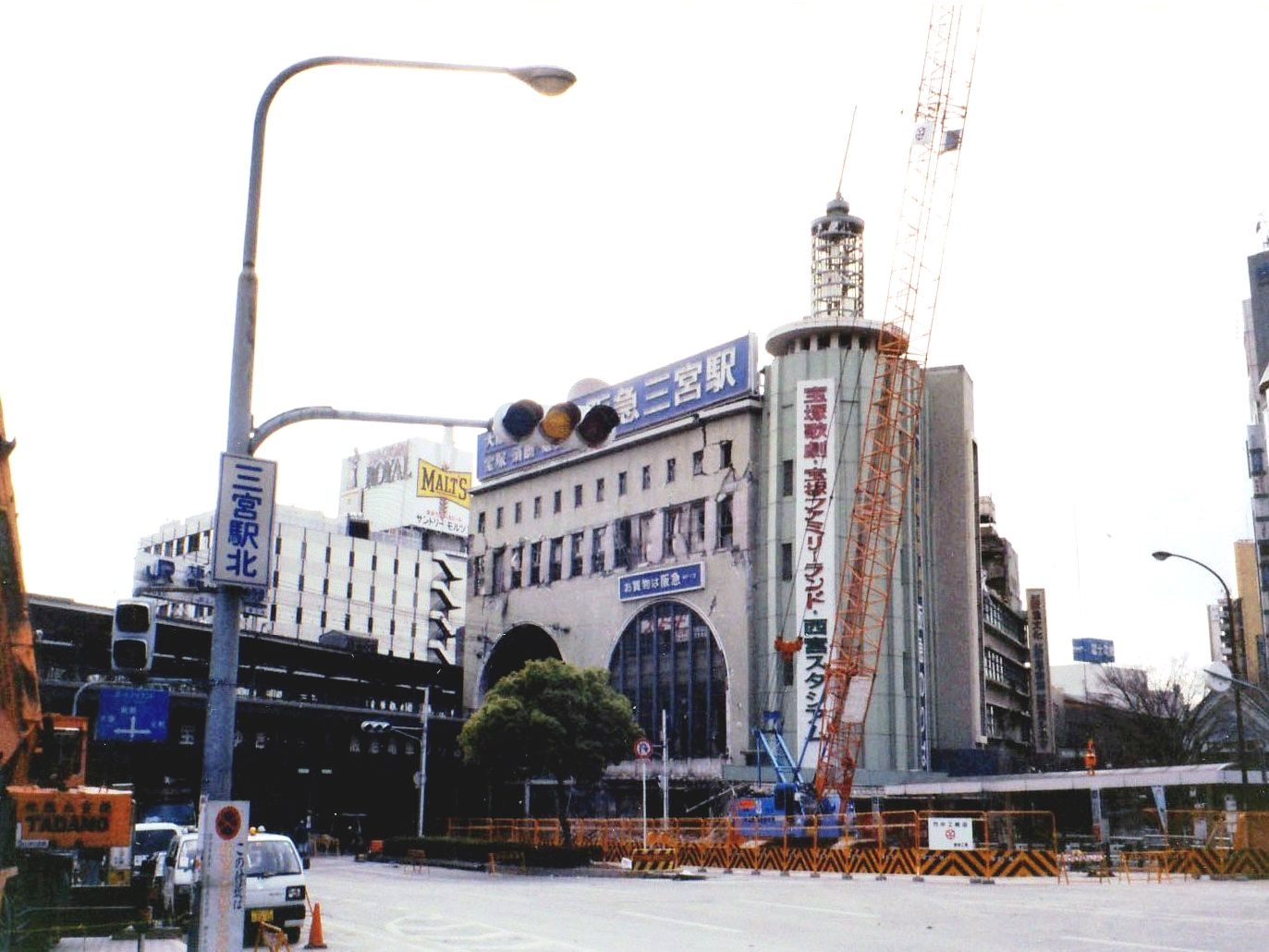 Kobe Hankyu Building 1995